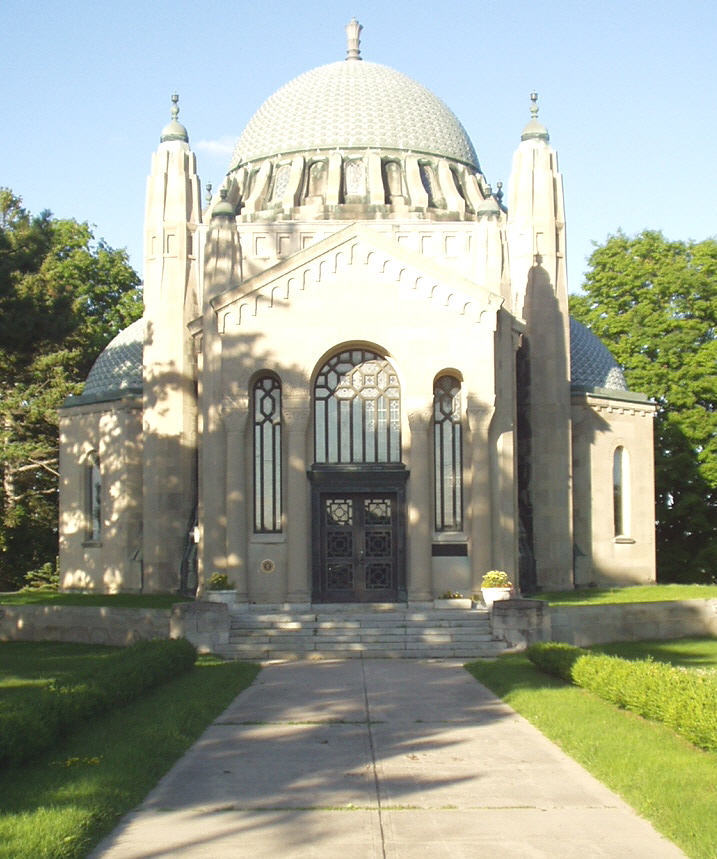 Self-taken photo.